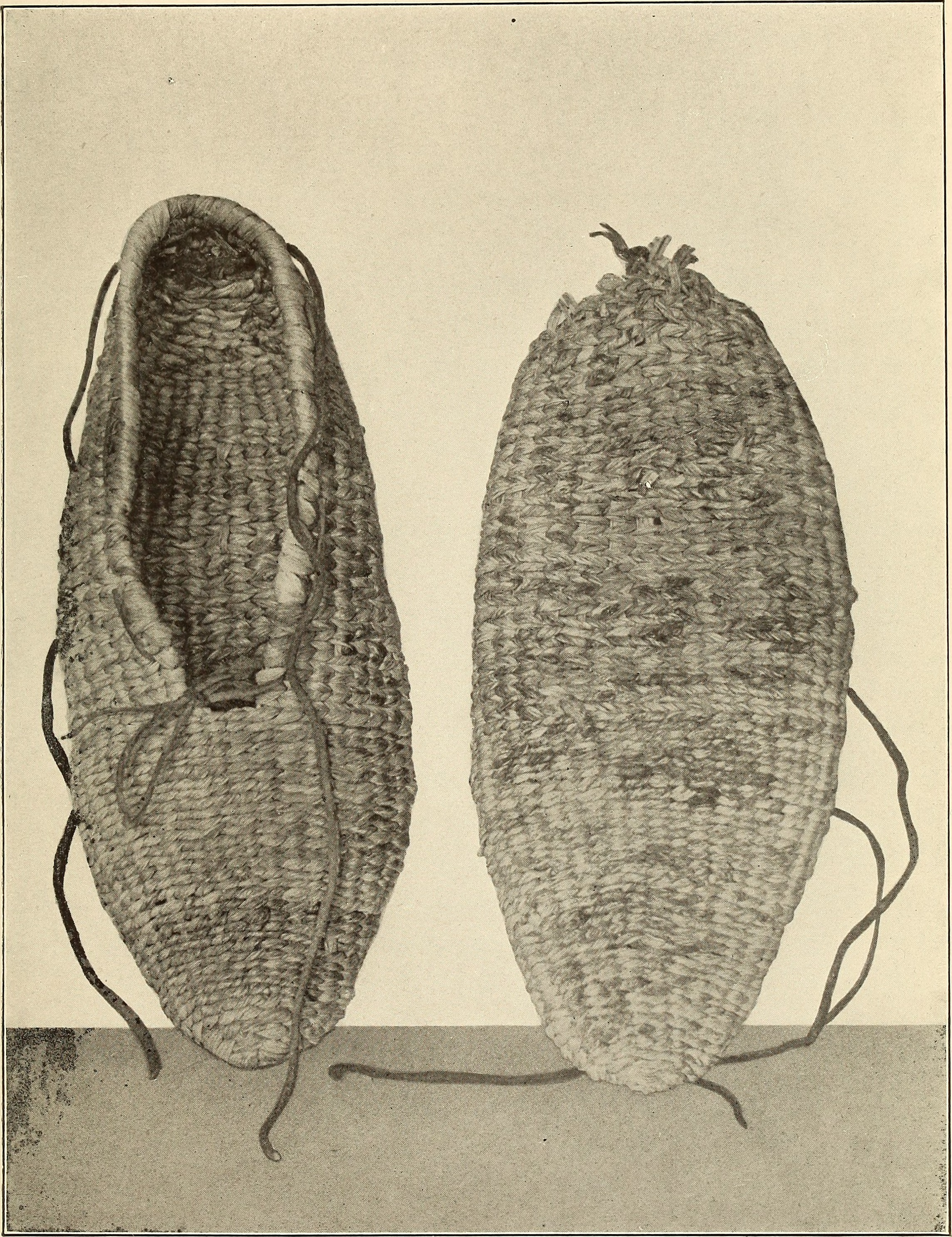 Title: Annual report Year: 1902 (1900s) Authors: New York State Museum Subjects: New York State Museum Science Science Publisher: Albany : University of the State of New York Text Appearing Before Image: Plate 24 Text Appearing After Image: Seneca husk moccasins. Once common, these articles are now obsolete amongthe Iroquois. Collected by A. C. Parker, 1910 Plate 25